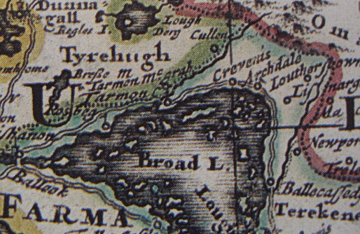 The Barony of Tyrehugh, showing Termonmcgrath and McGrath (Termon) Castle circa 1649